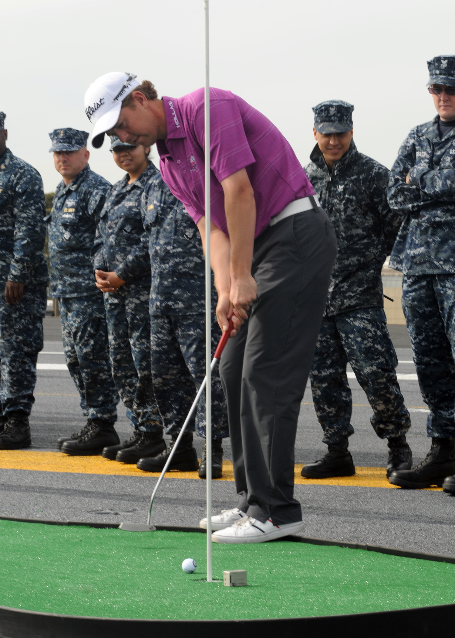 SAN DIEGO (Jan. 25, 2011) Professional golfer Bryce Molder putts on the flight deck of the aircraft carrier USS Ronald Reagan (CVN 76). The putting challenge was part of Play for L.A., an 18-day promotional event culminating in the Northern Trust Open golf tournament on February 15. Ronald Reagan is at homeport in San Diego preparing for an upcoming deployment. (U.S. Navy photo by Mass Communication Specialist Seaman Nicholas A. Groesch/Released)